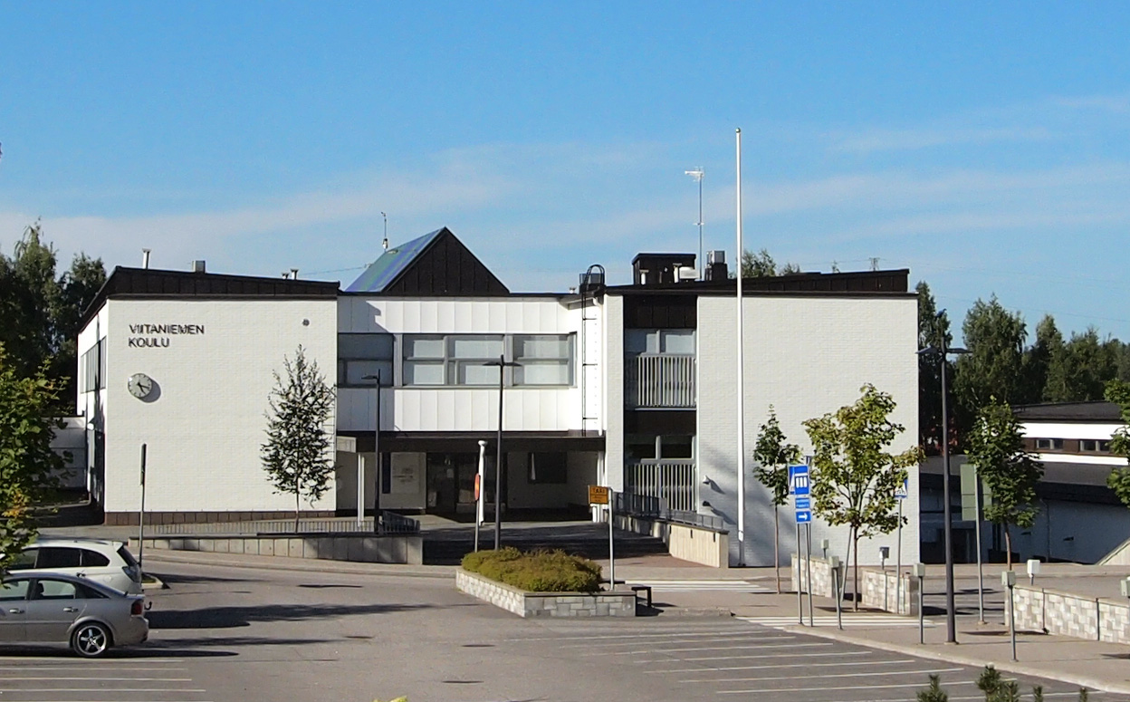 Shcool Viitaniemen koulu in Jyväskylä. This photograph was taken with an Olympus E-PL1